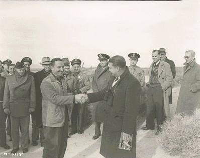 Milo Burcham (left) and Clarence Johnson shake hands after the successful first flight of the prototype XP-80 Shooting Star. Photograph taken from and adjusted for contrast.